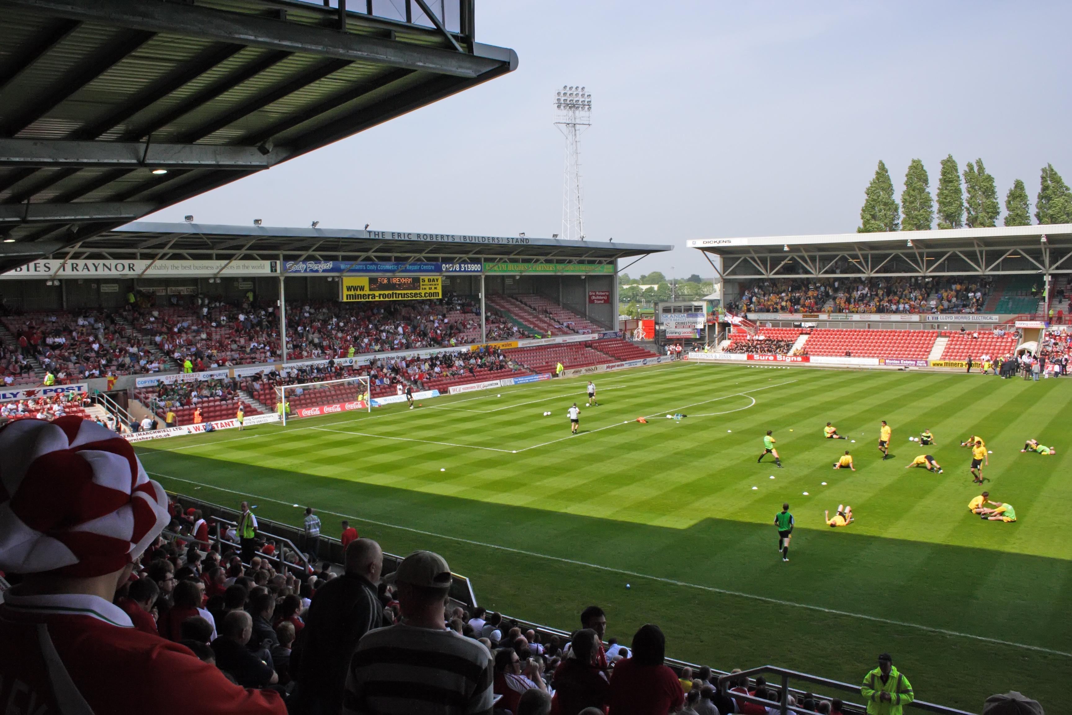 The Eric Roberts' Stand at Wrexham's Racecourse Ground